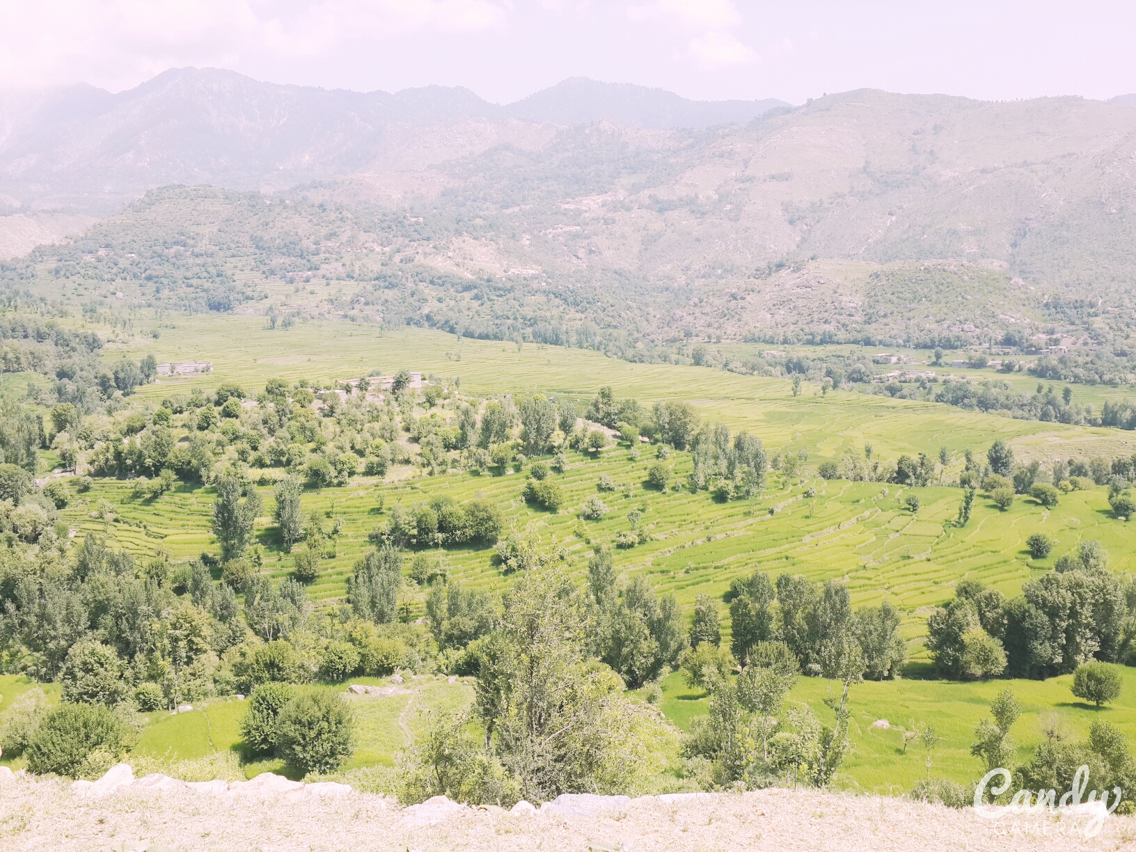 this image was taken in bajaur agency FATA pakistan